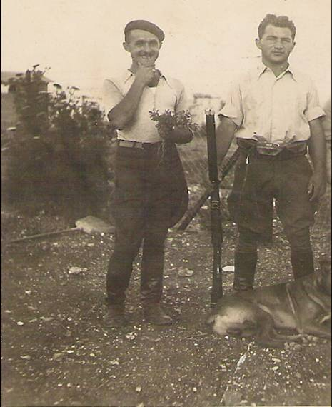 the two guards from yokneam, yoash and izhak, who were killed by arabs in 2/8/1936